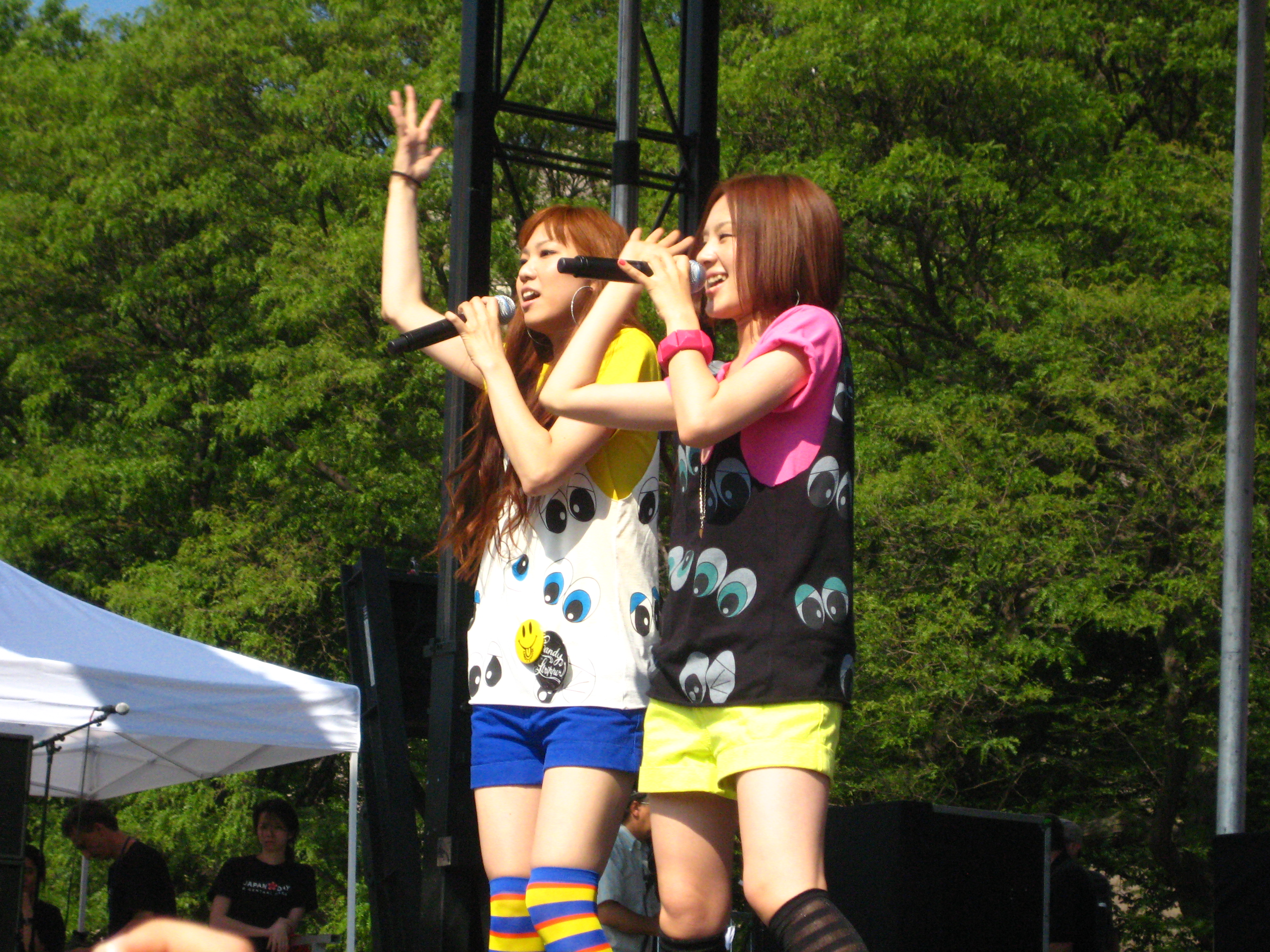 HALCALI live at Japan Day in Central Park, New York City.